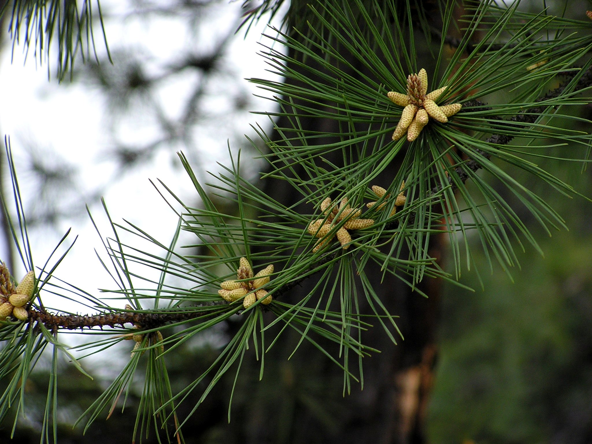 Pinus rigida foliage and pollen cones, Big Bear Lake, West Virginia.